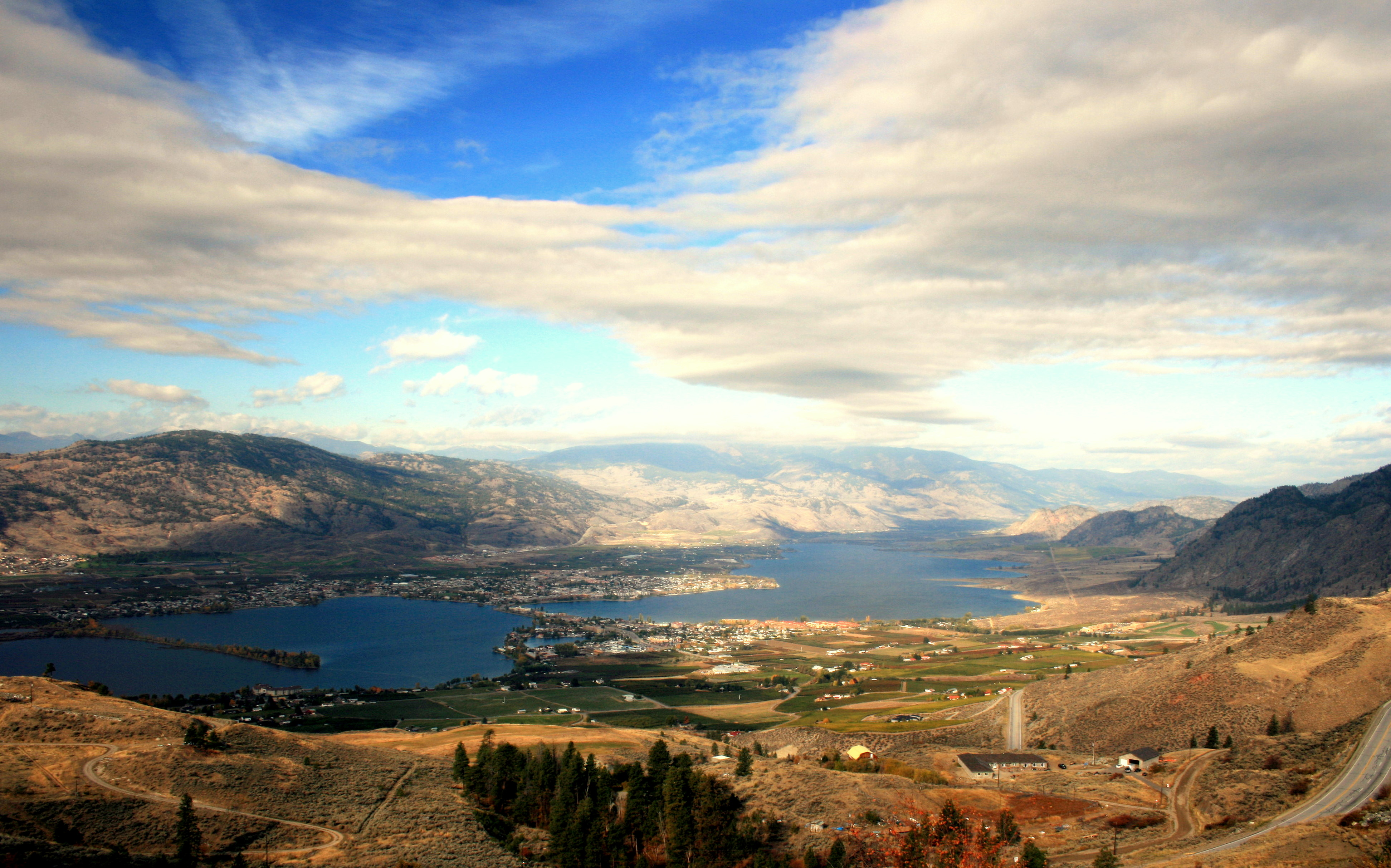 Aerial view of Osoyoos, British Columbia, Canada